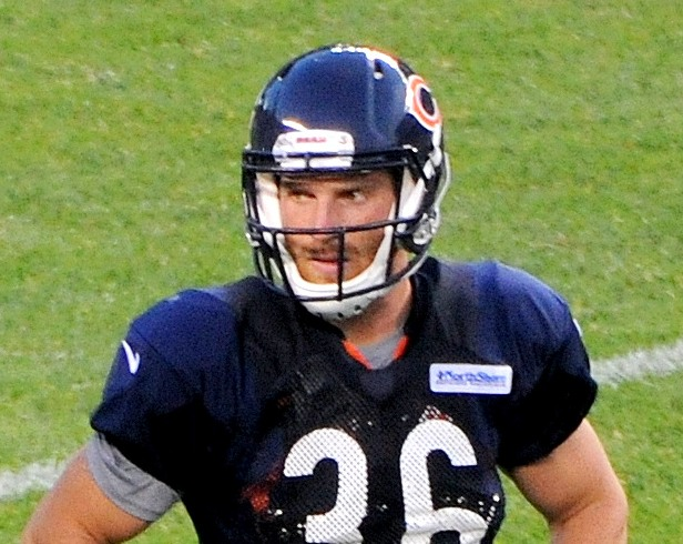 Running back, Jordan Lynch, at Chicago Bears training camp in 2014.